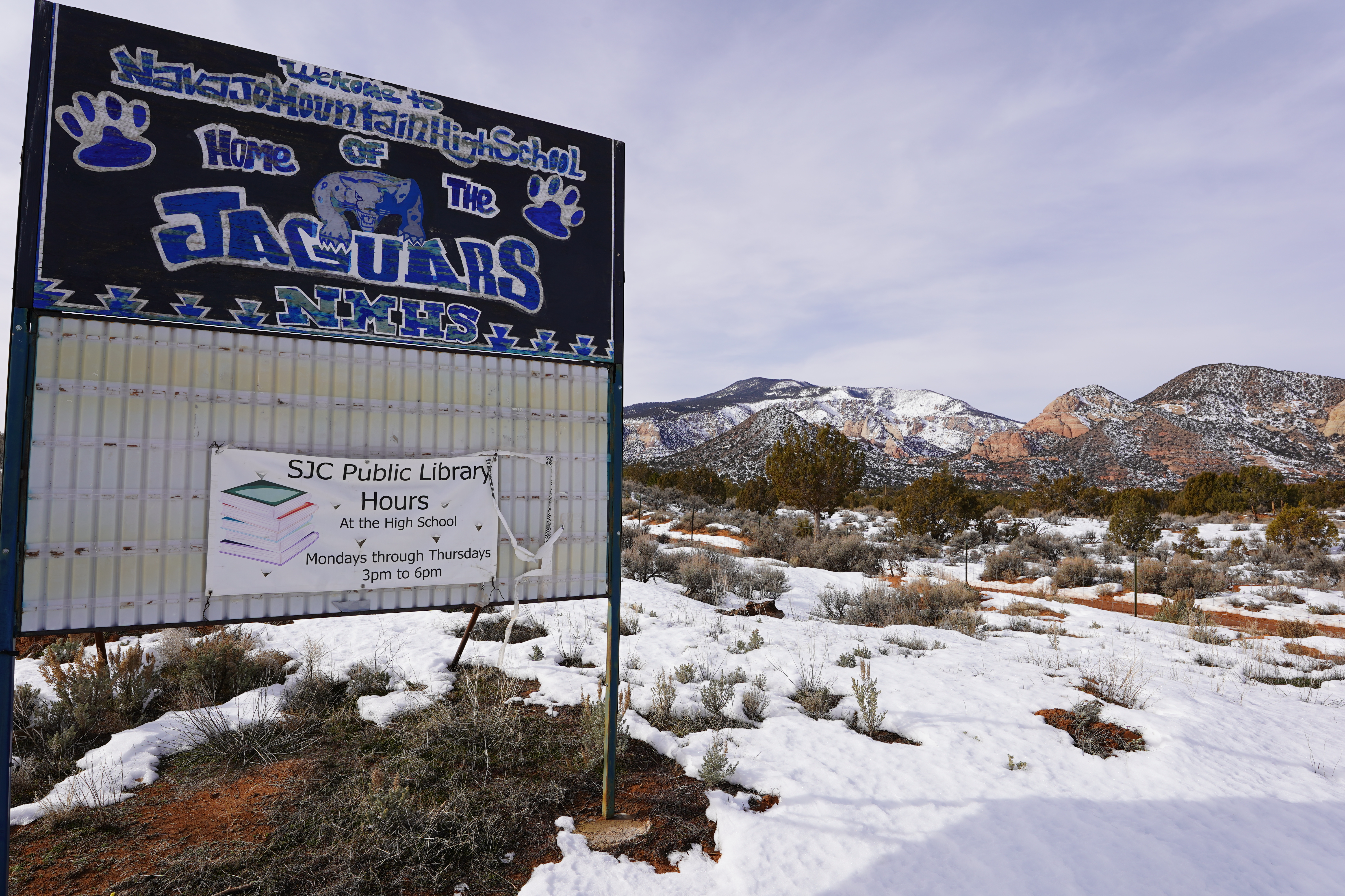 Entrance sign to Navajo Mountain High School with eponymous mountain in background. Photograph taken on 2019-01-20T10:34:26-07:00.